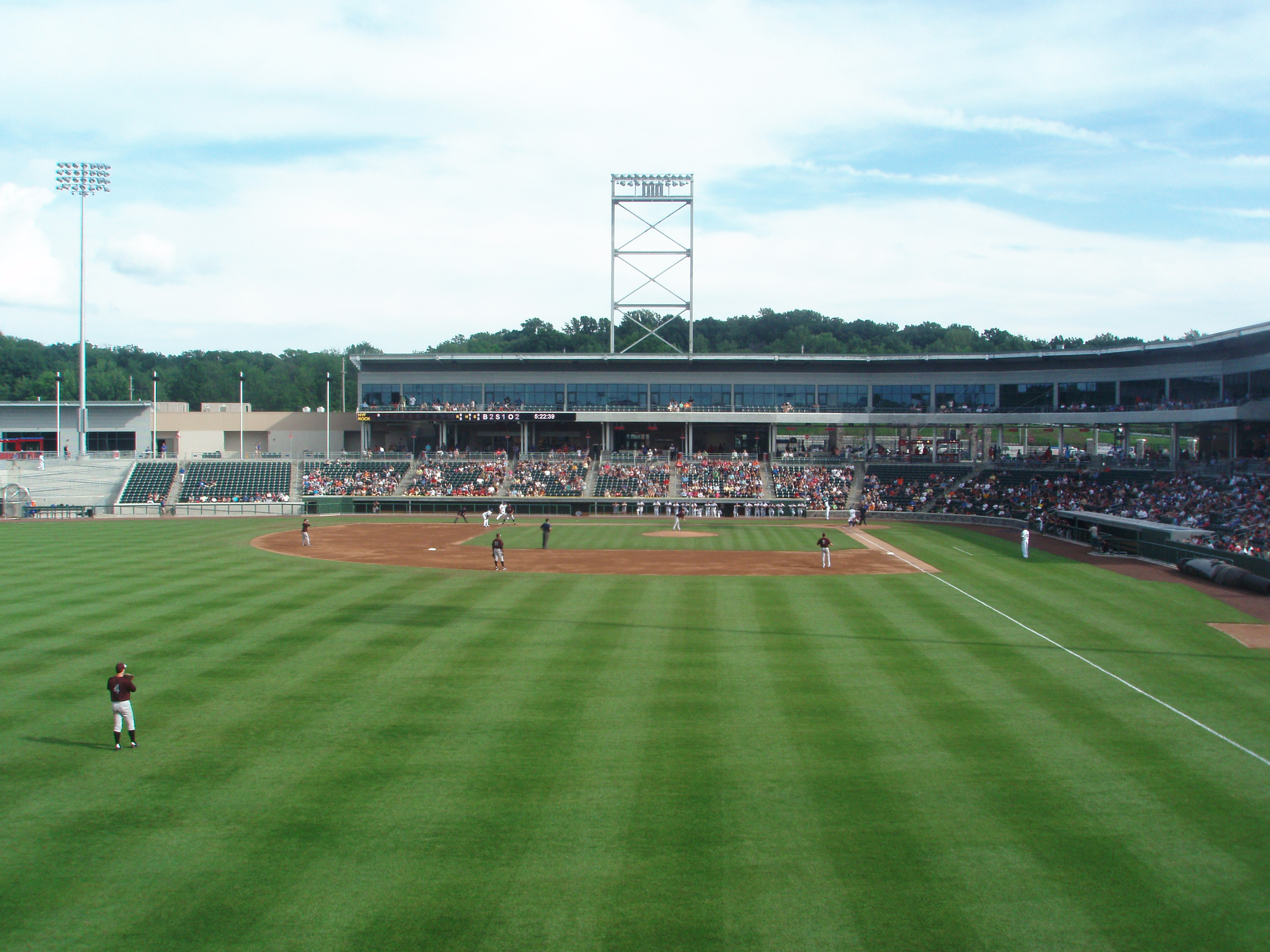 Provident Bank Ballpark in Pomona, New York home of the Rockland Boulders